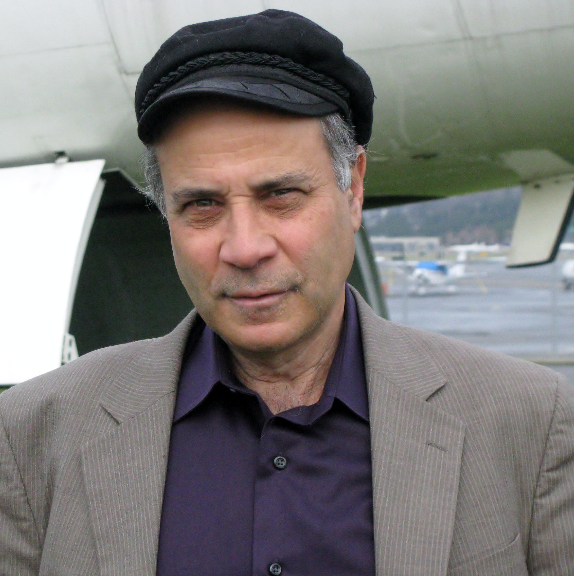 Photo of Robert Zubrin taken by the Mars Society.